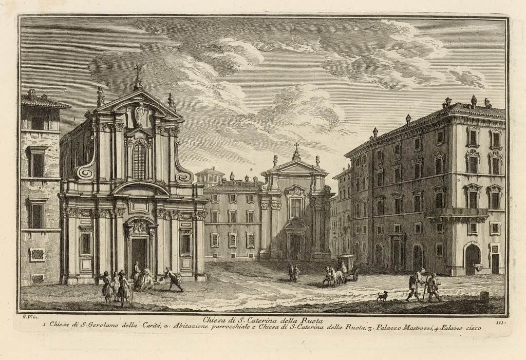 1) S. Girolamo della Carità; 2) S. Caterina della Ruota; 3) Palazzo Mastrozzi; 4) Palazzo cieco (blind)